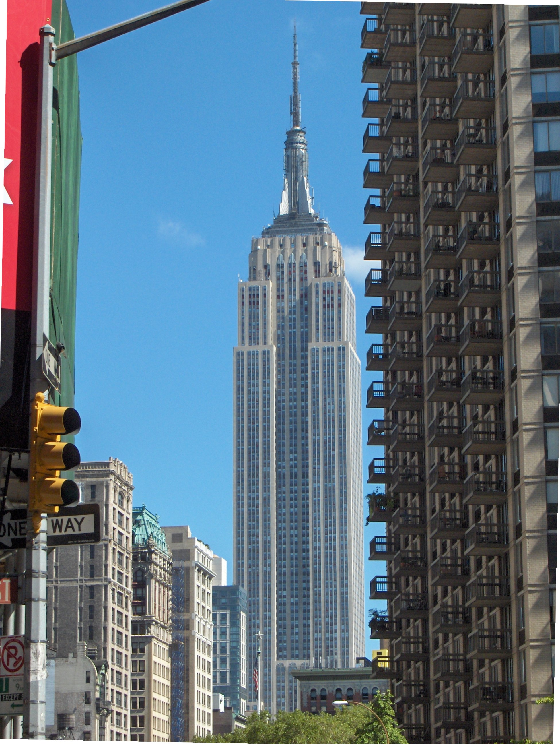 The Empire State Building, the most renowned skyscraper of New York City. The photograph is taken from Washington Square Park, Manhattan.